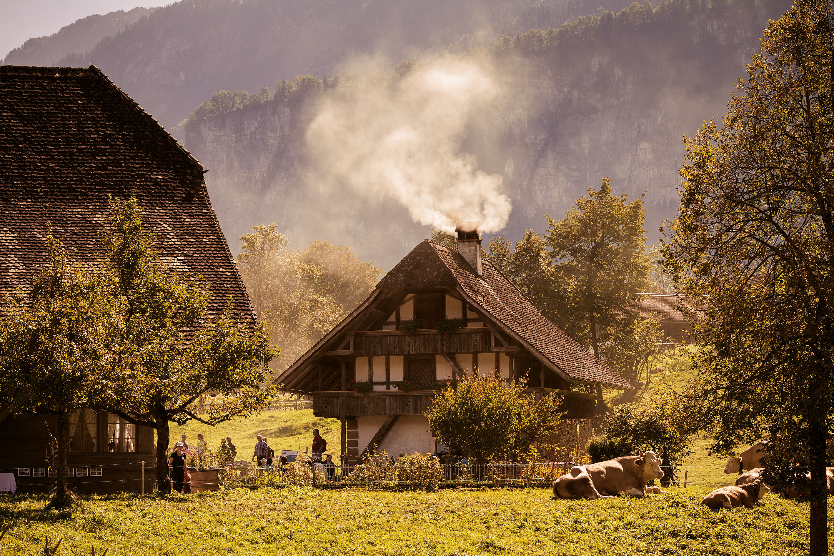 Swiss Open-Air Museum Ballenberg. 333 Stöckli, Detligen/Radelfingen BE, 18th c.